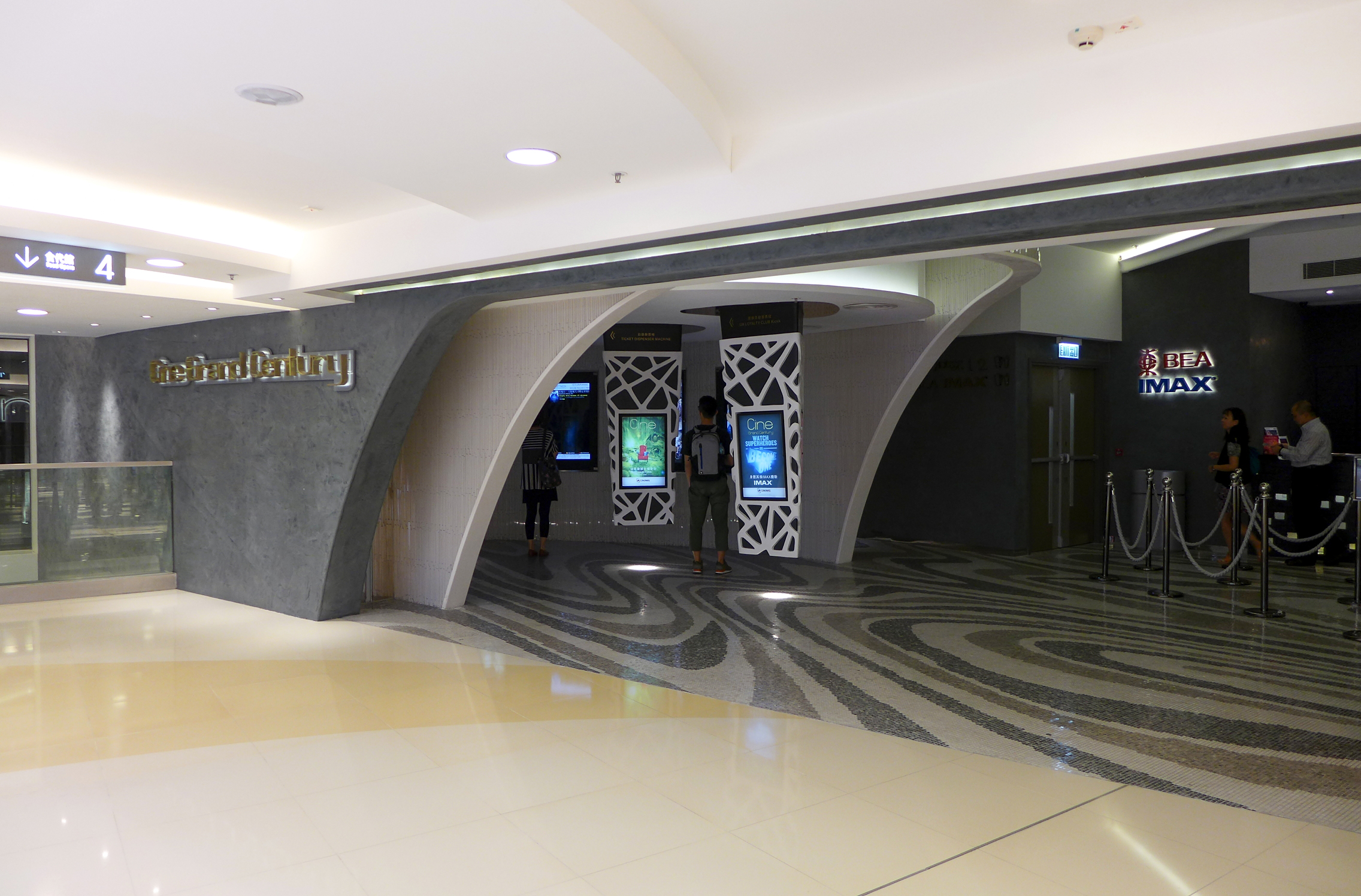 UA Cine Grand Century